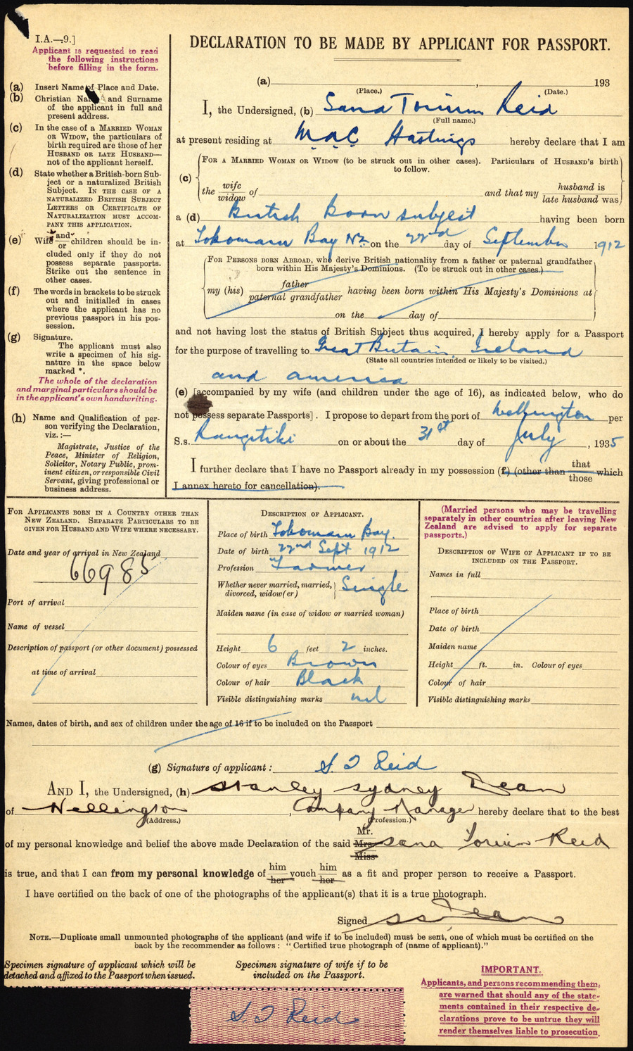 Archives New Zealand Reference: ACGO 8333 IA1 1350 / 15/11/59182